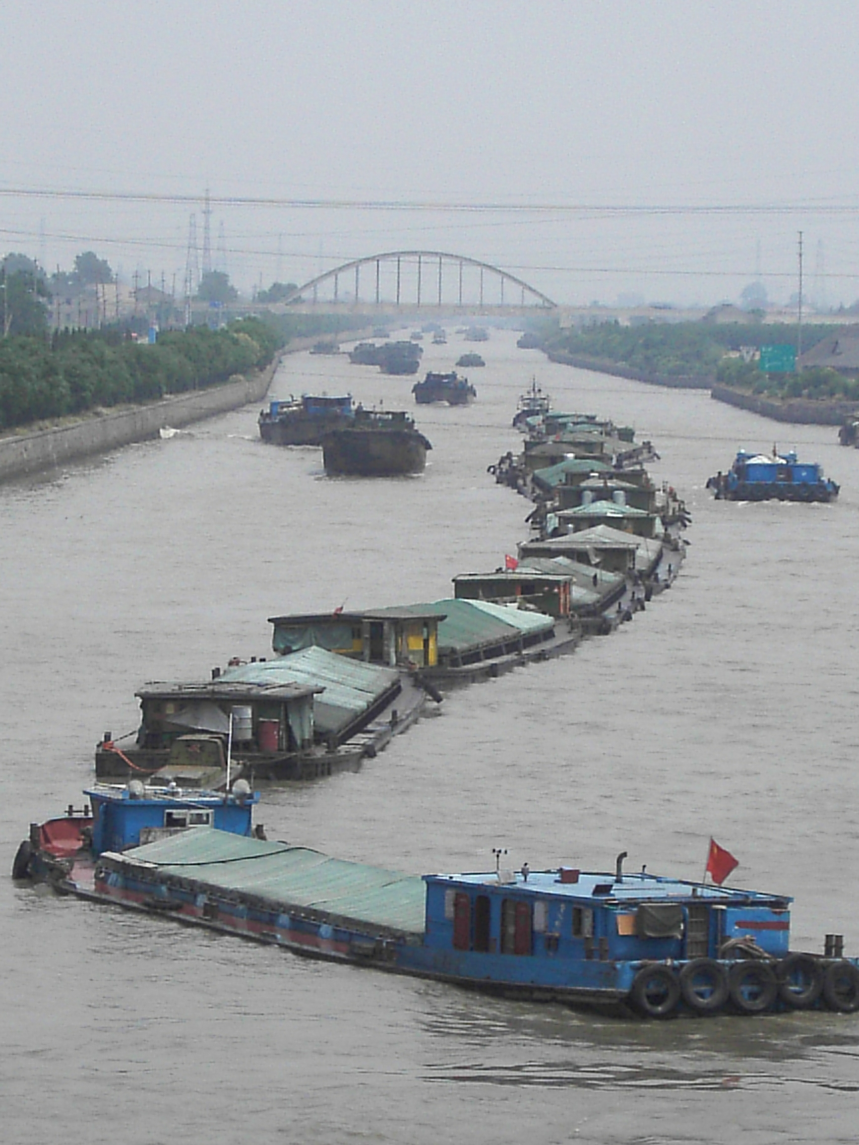 Author - Tomtom08, user's own work 2006.